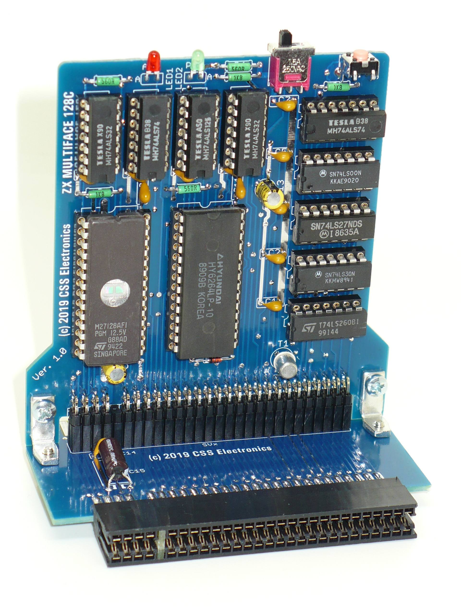 CSS's Multiface 128 FRONT